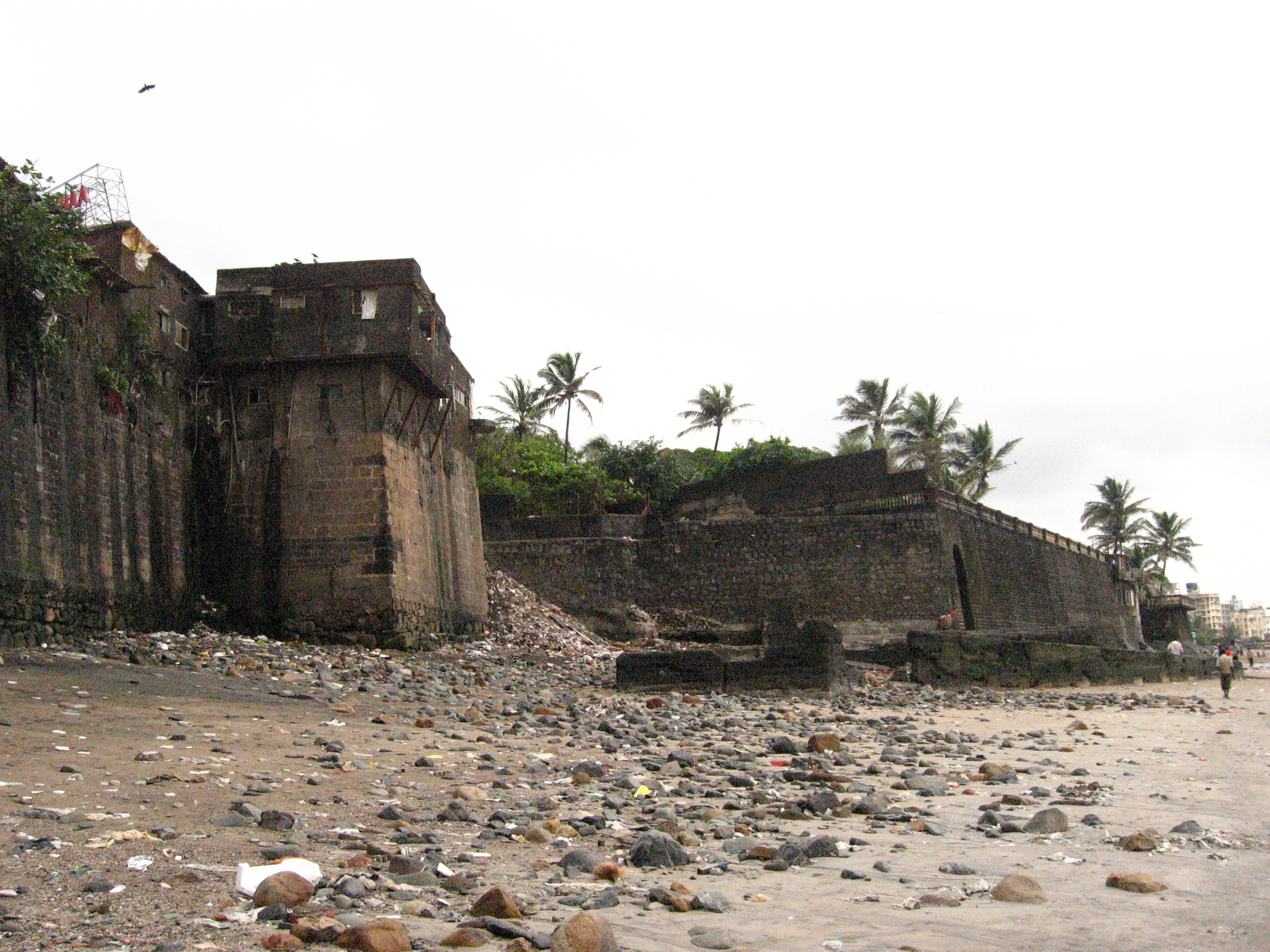 Mahim Fort, a 17th century British fort in Mahim, Mumbai